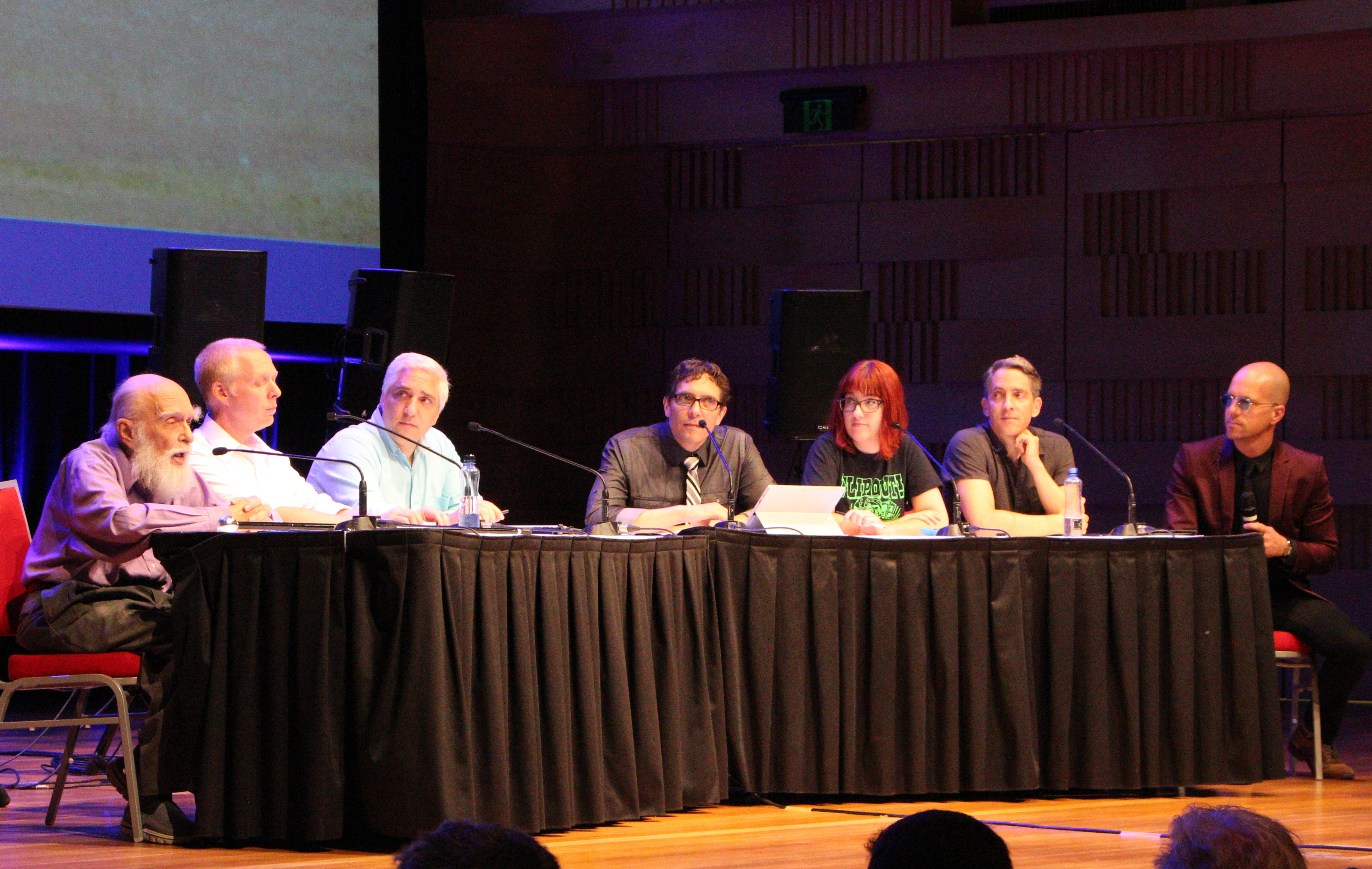 Australian Skeptics Convention held in Sydney, November 2014. James Randi (far left) and George Hrab (far right) join the Skeptics Guide to the Universe (from left to right Evan Bernstein, Steve Novella, Bob Novella, Rebecca Watson, and Jay Novella).